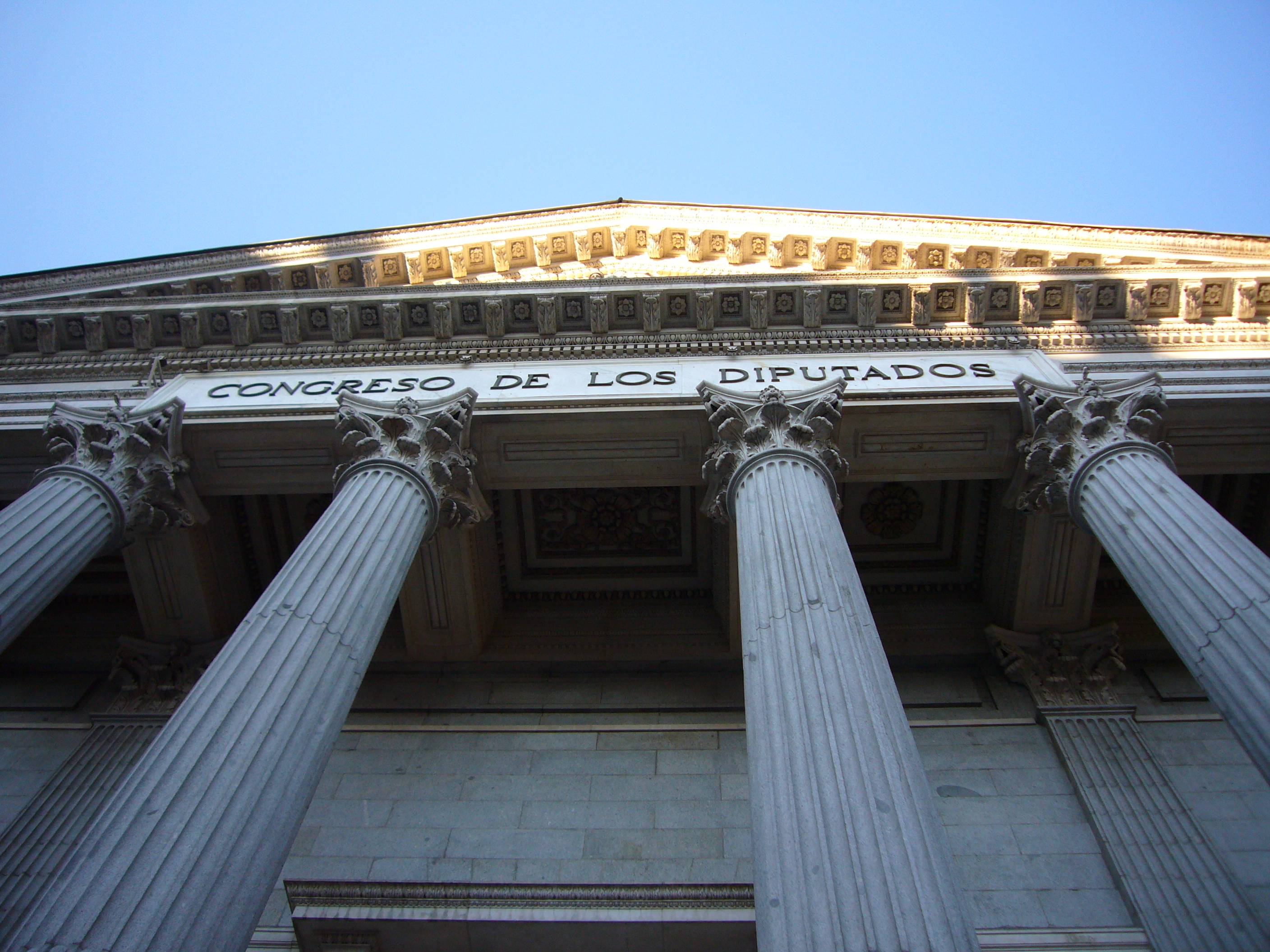 Light up the main front of the seat of Congress in Madrid (Spain).